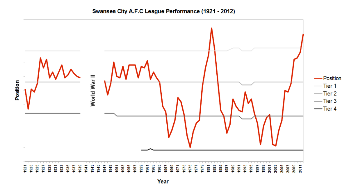 Swansea Town / Swansea City AFC finishing positions in the Football League since 1921.